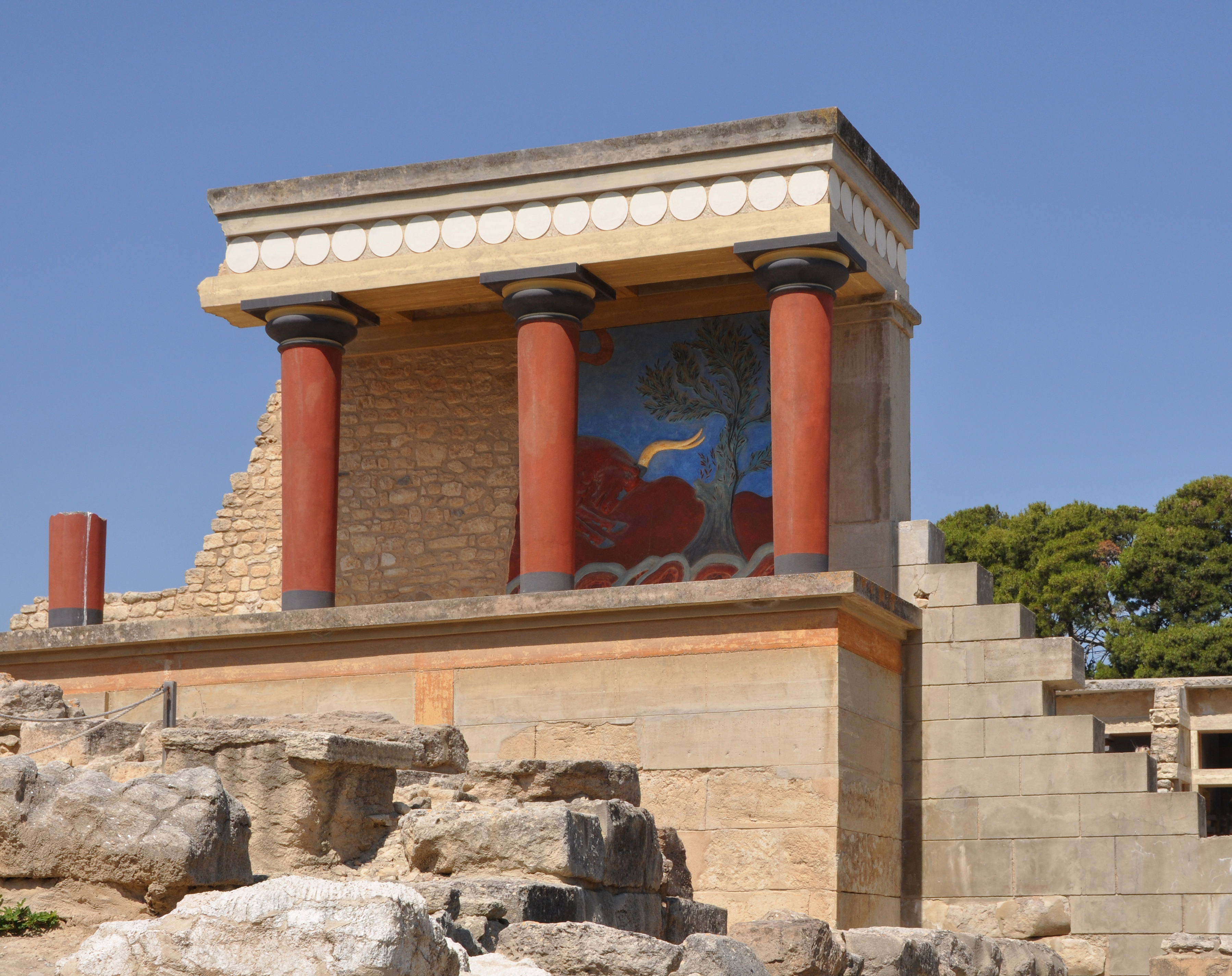 The palace of Knossos (Crete, Greece): part of the northern entrance, reconstructed by the British archaeologist Sir Arthur Evans